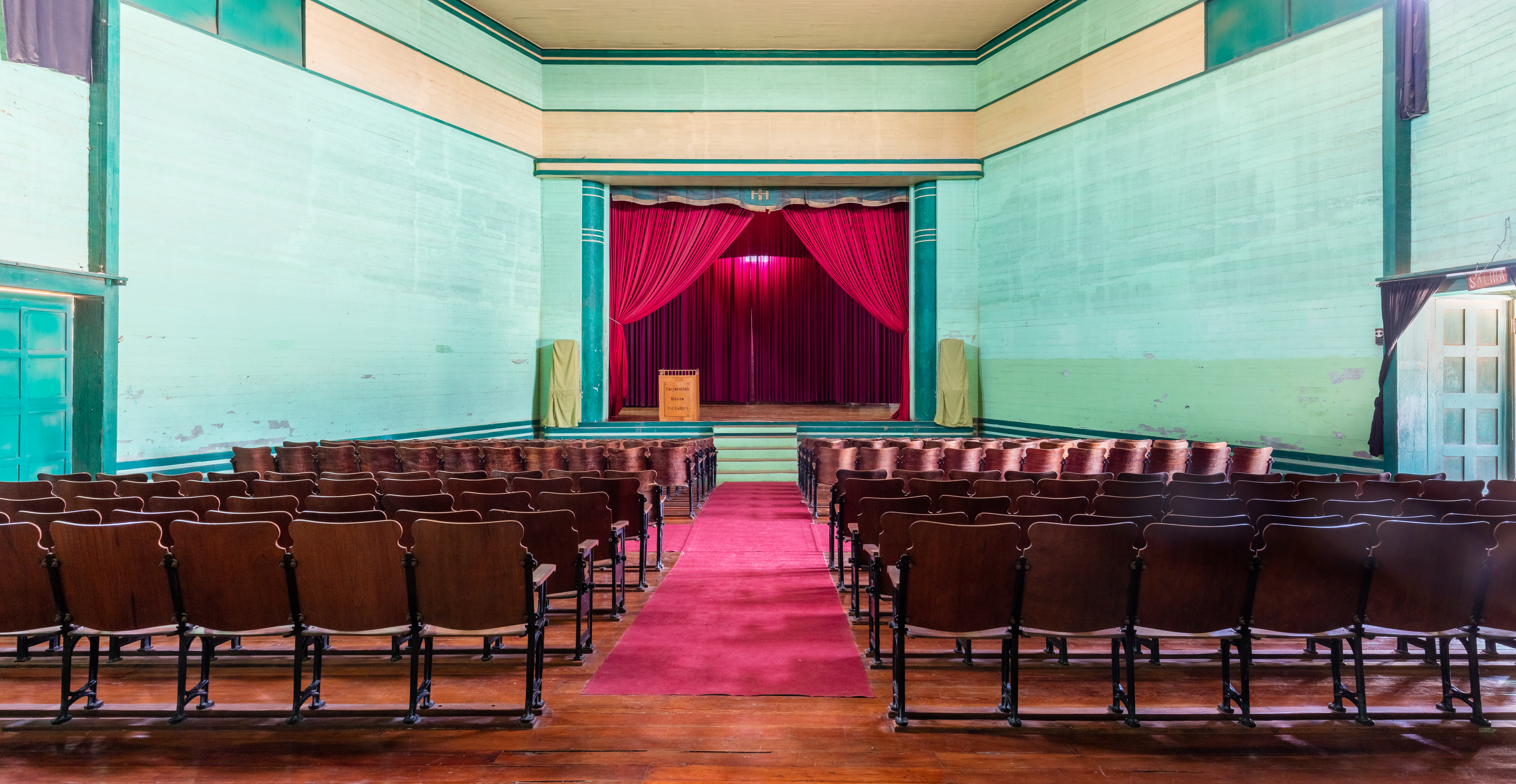 Humberstone and Santa Laura Saltpeter Office, Chile